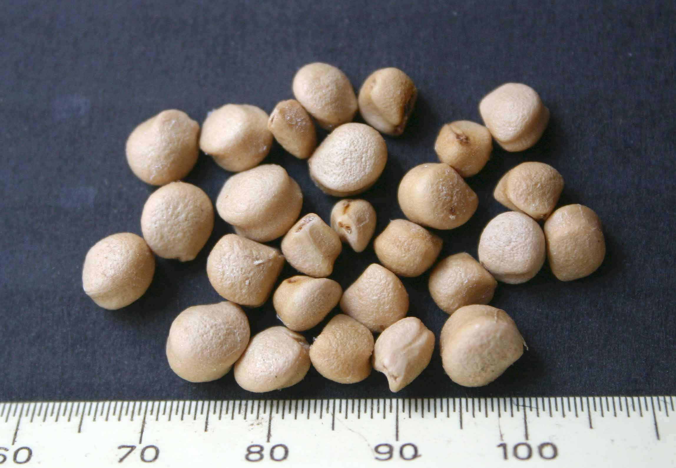 Seed of Grewia occidentalis - from cultivated tree at Honeydew, Johannesburg, South Africa